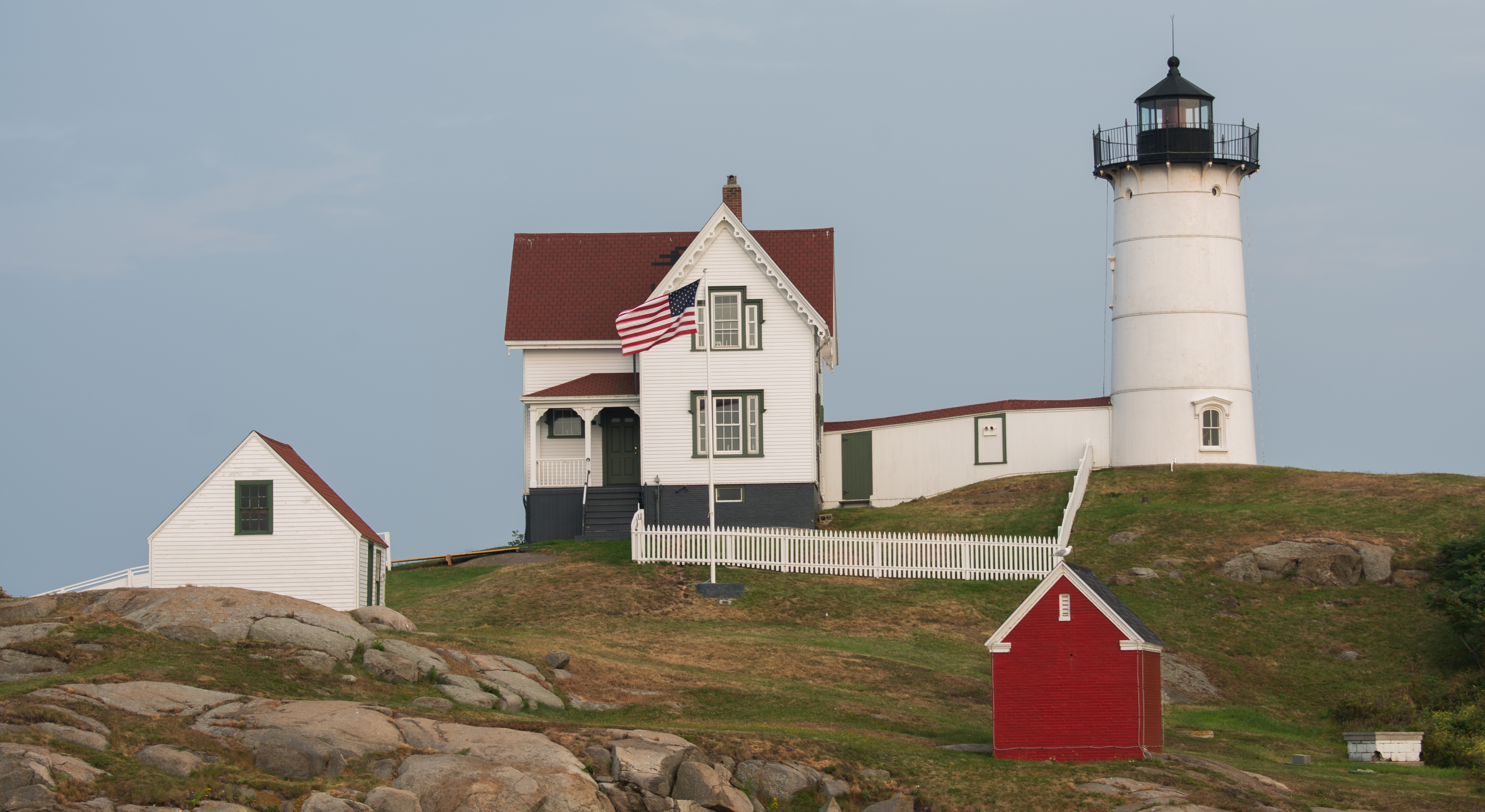 Cape Neddick Light Station, Cape Neddick York